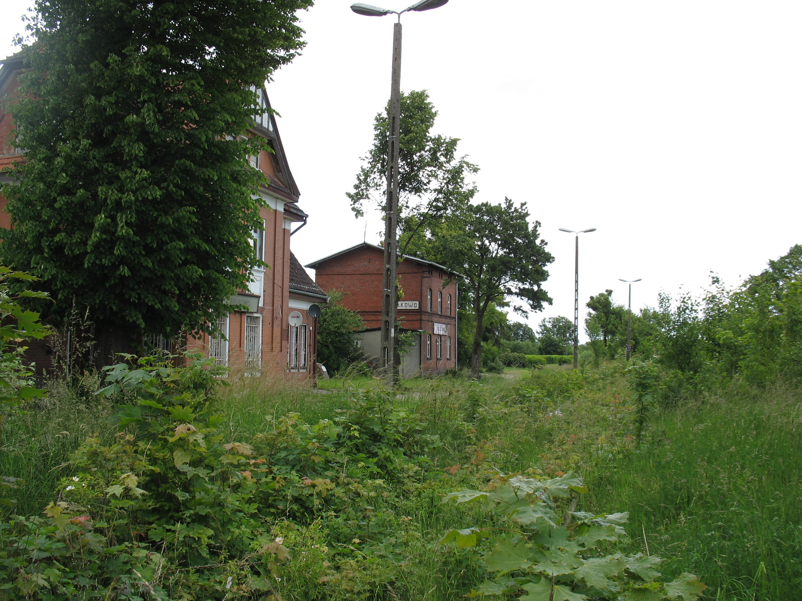 Train stop in Bielkowo, pomorskie, Poland